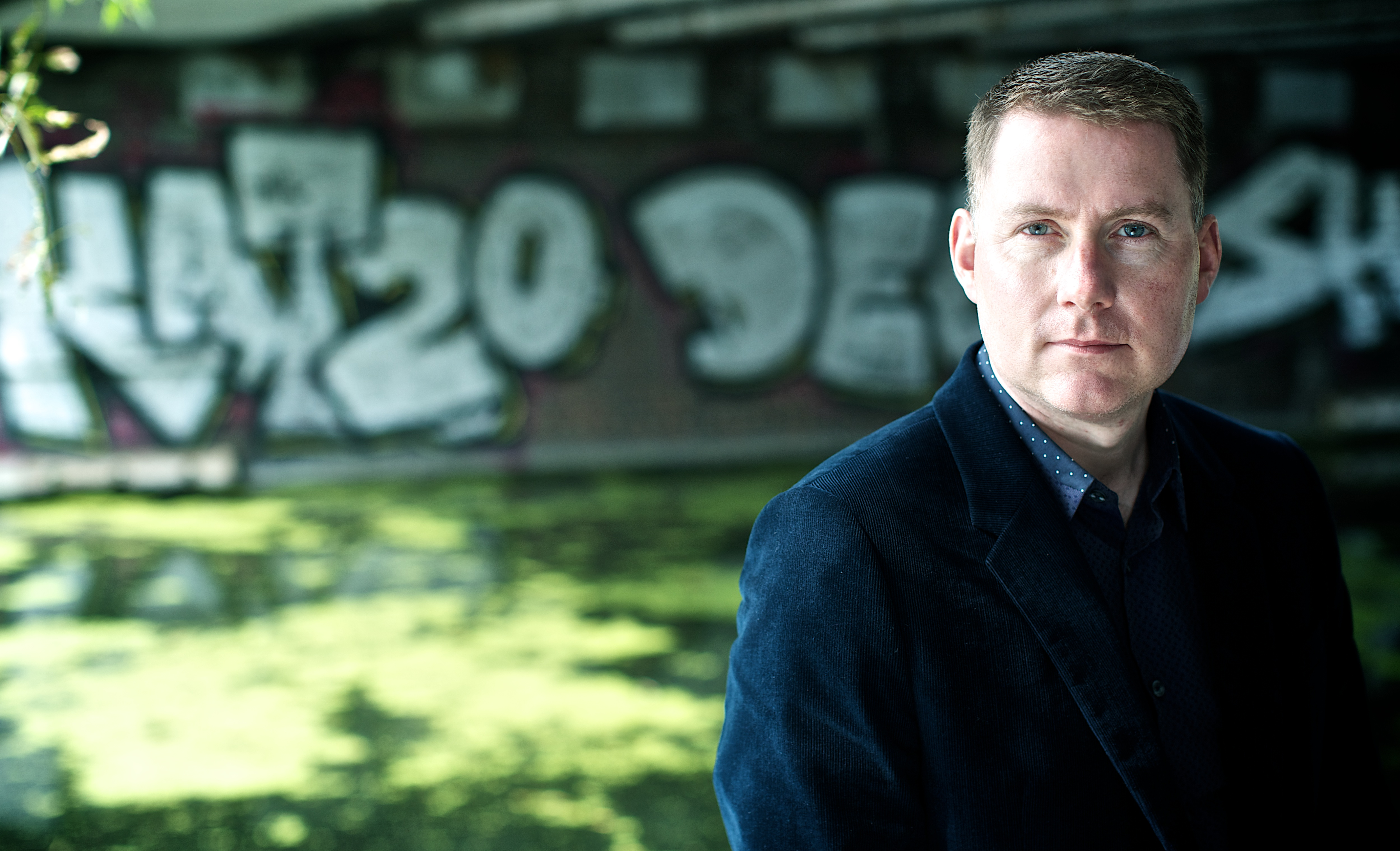 Matt Arlidge